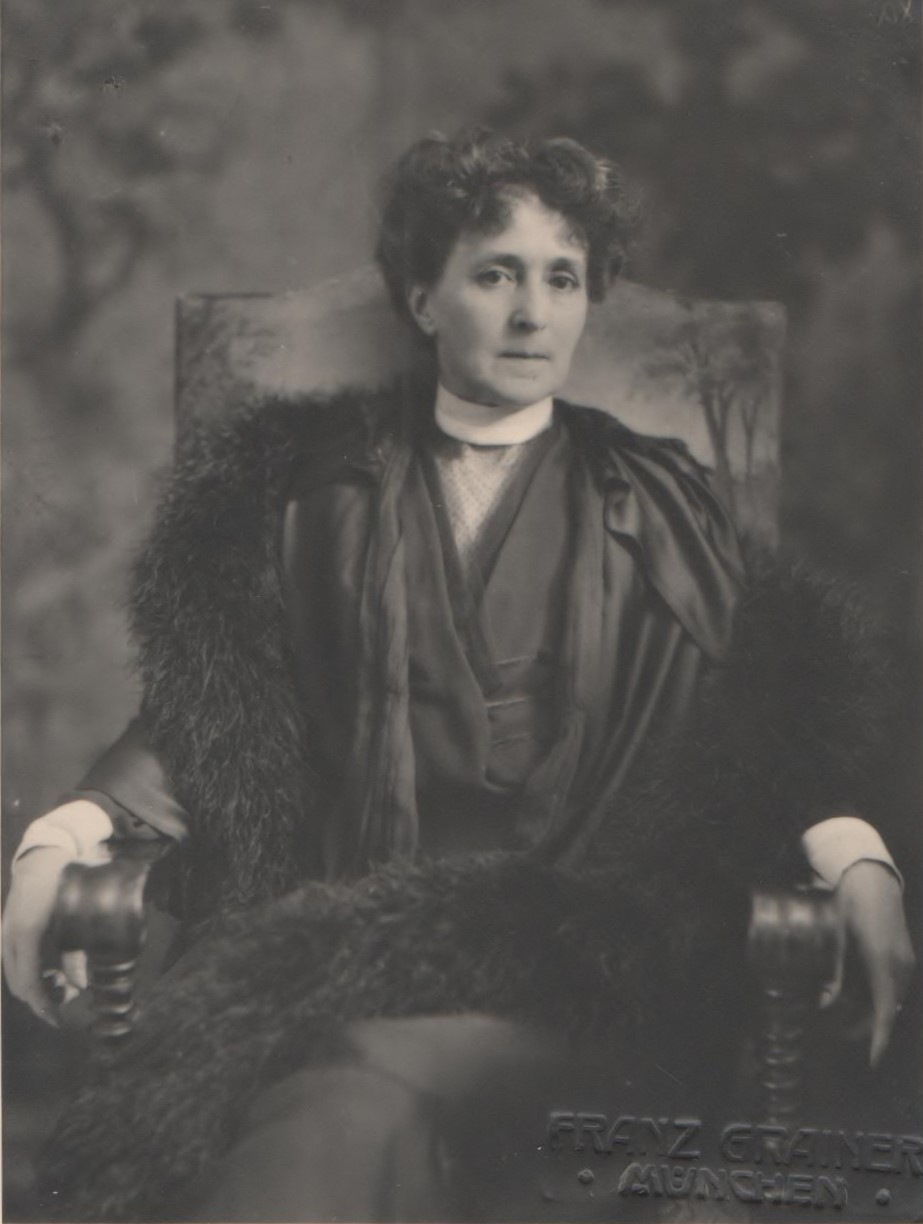 Infanta Maria Josepha of Portugal (aka Duchess in Bavaria) in old age